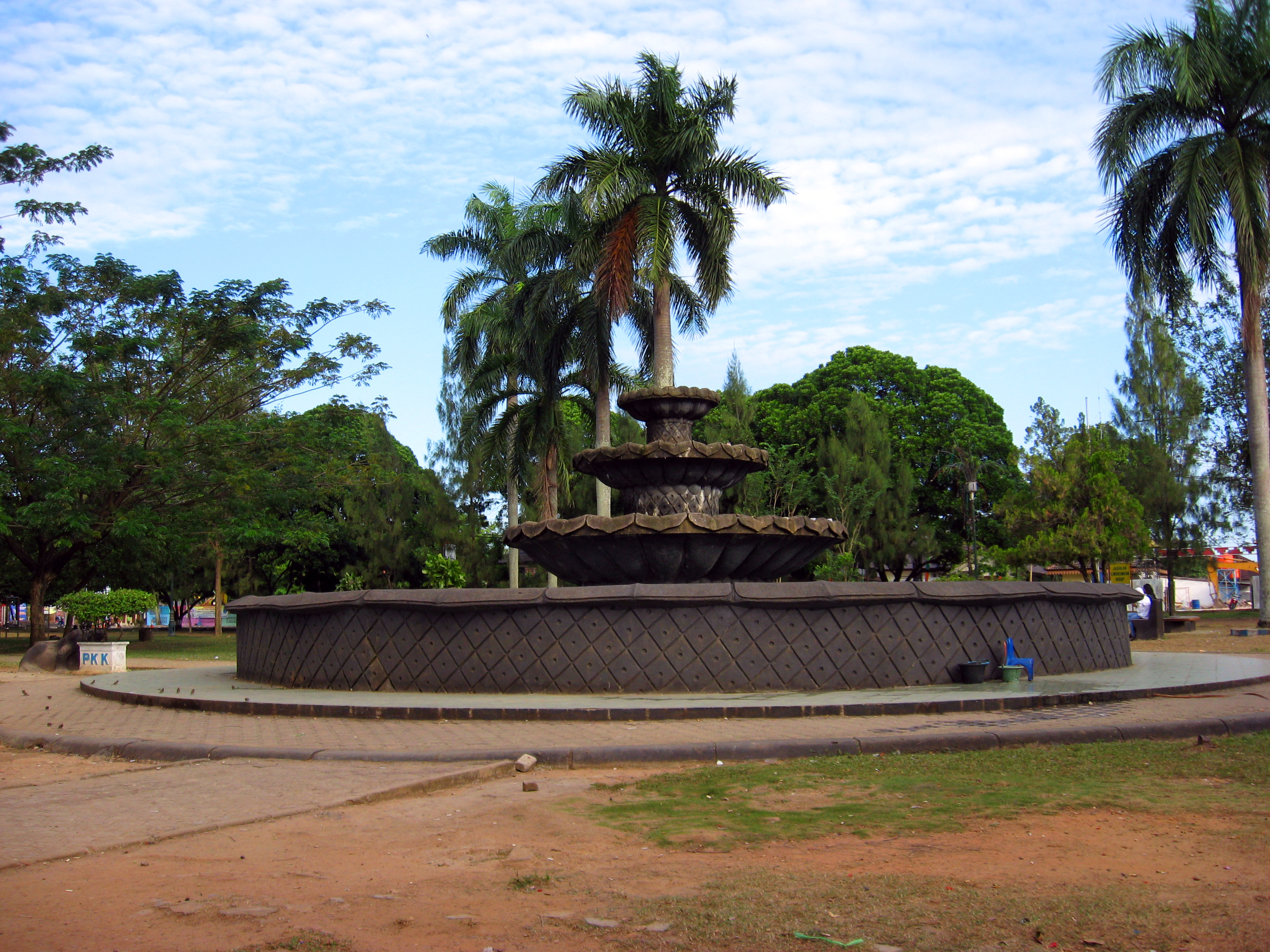 A fountain in the centre of Metro town square, one of the many things changed during the renovations in the 1980s